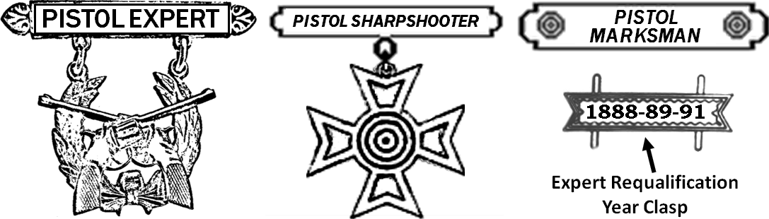 Graphic of former United States Army Pistol Qualification Badges